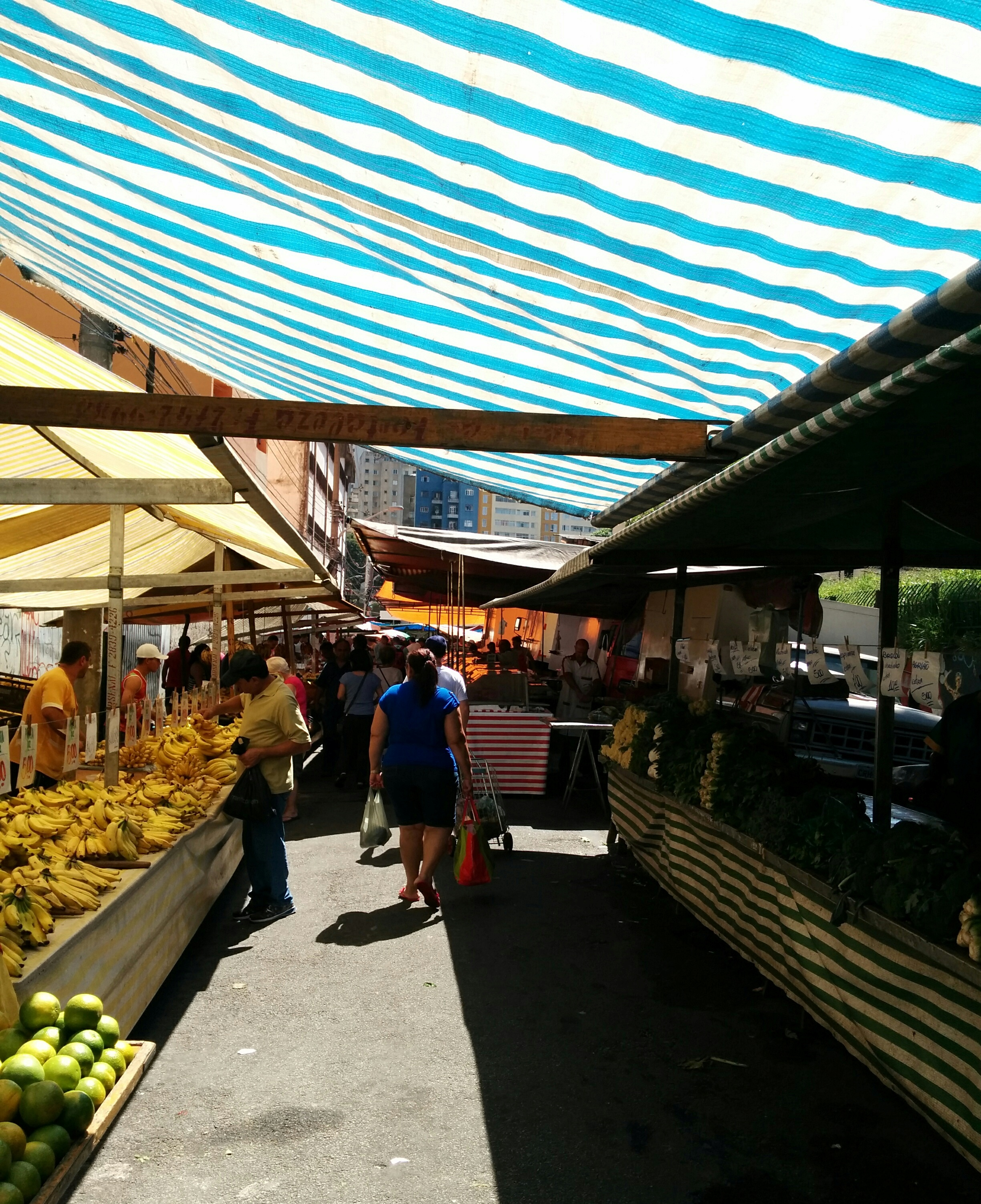 Street fair at São Paulo, Bela Vista (district of São Paulo).